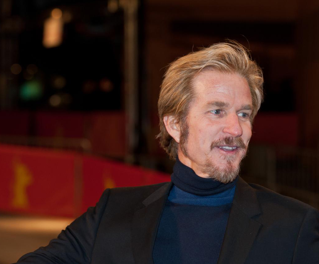 US American actor Matthew Modine, member of the jury for the Best First Feature Award, Opening of the 62nd Berlin International Film Festival